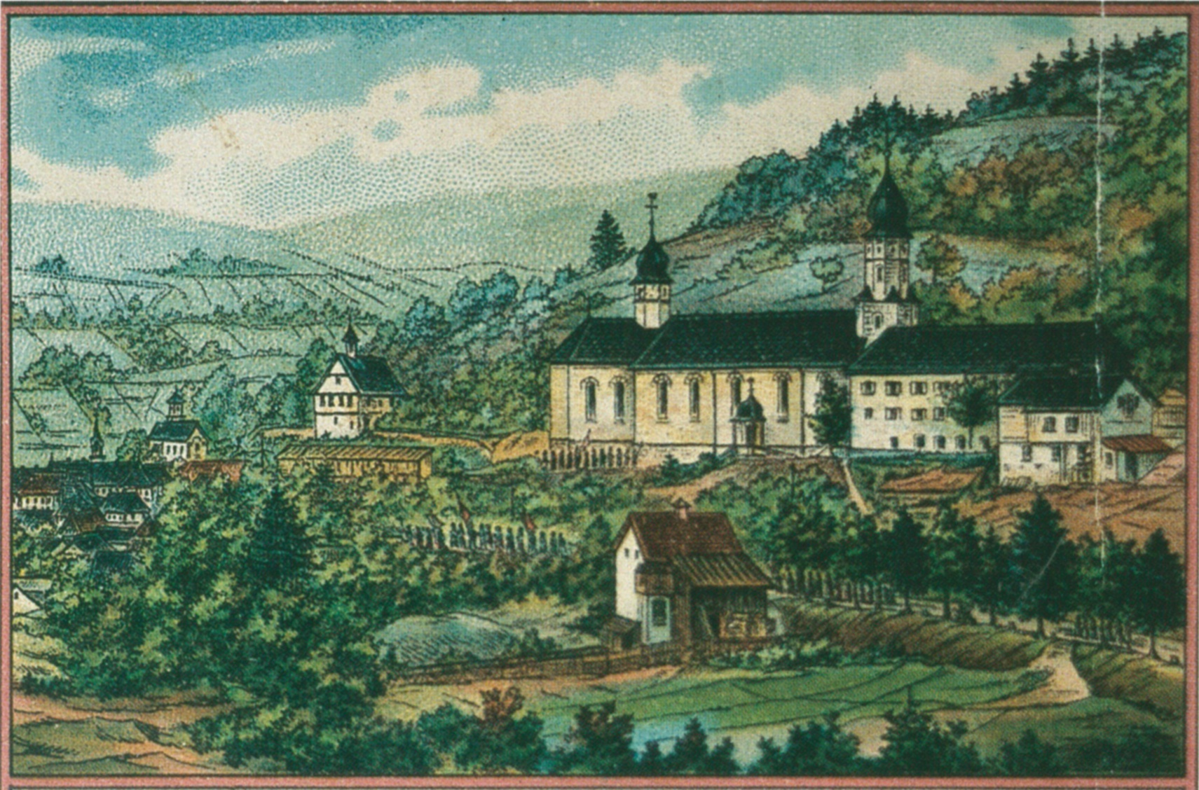 PIlgrimage church Maria in der Tanne Triberg around 1800